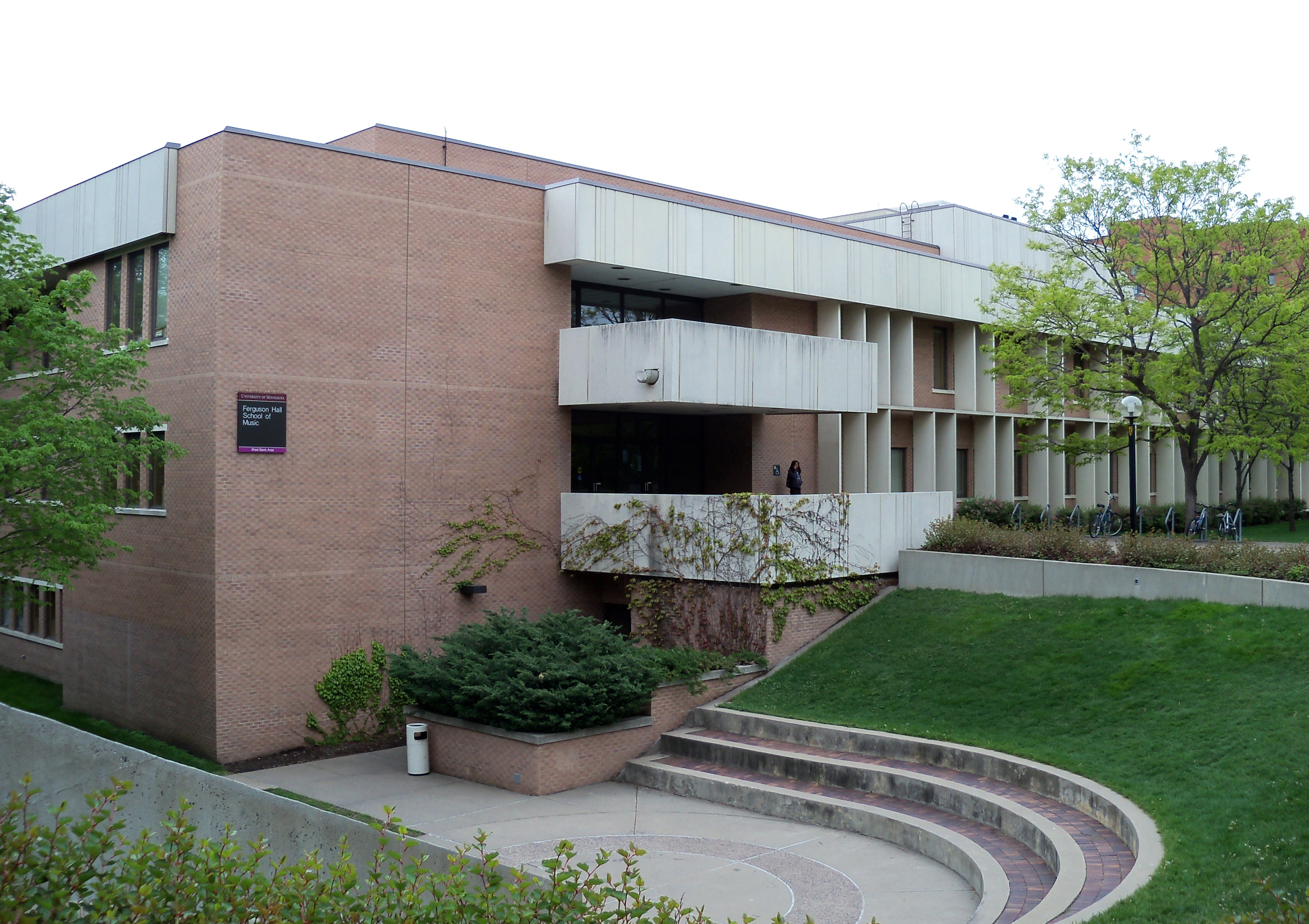 Northern end of Ferguson Hall on the West Bank of the University of Minnesota campus in Minneapolis, Minnesota, USA.